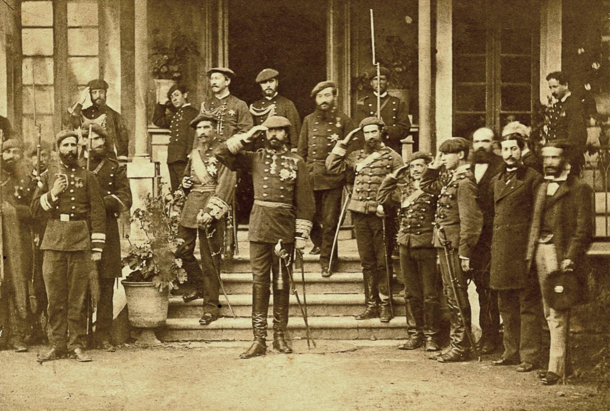 «Rey Carlos VII, Capitán General del Ejército Carlista», fotografía realizada en Tolosa en 1875.